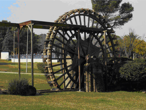 Ancient Arabic treadmill inside the facilities of the ETAP The Carambolo.